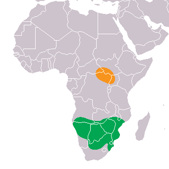 Ceratotherium simum range map Northern white rhino (C. simum cottoni) Southern white rhino (C. simum simum)